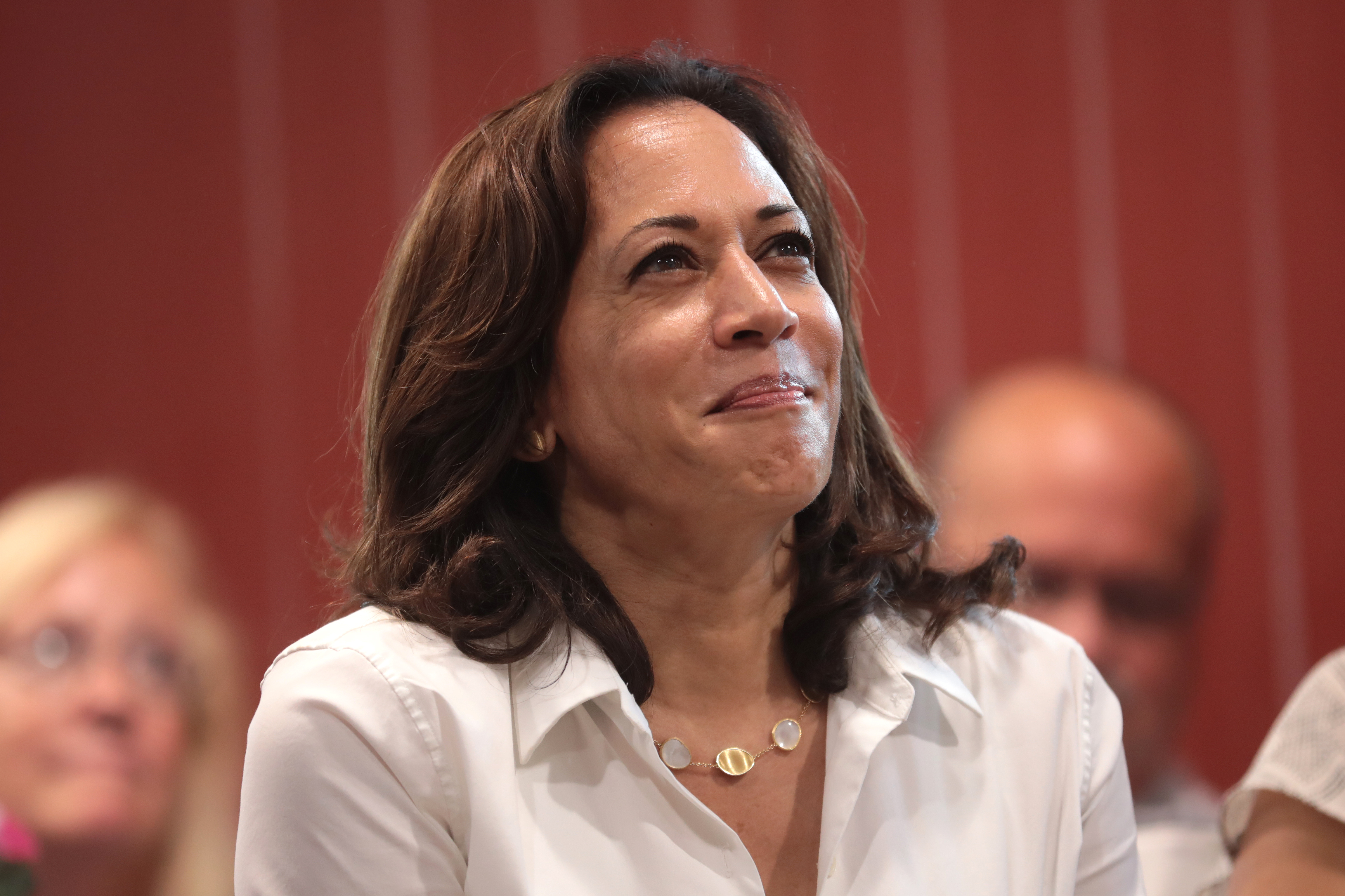 U.S. Senator Kamala Harris at a fundraiser hosted by the Iowa Asian and Latino Coalition at Jasper Winery in Des Moines, Iowa.